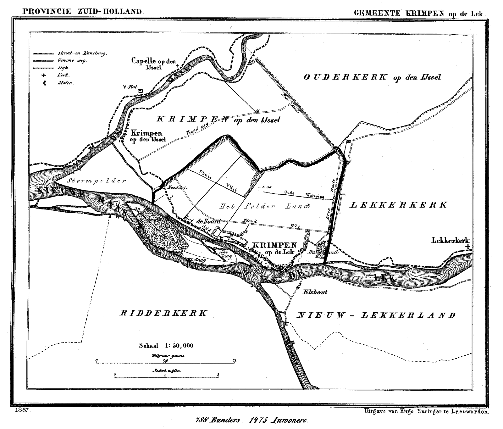 Historic map of Krimpen aan den Lek, municipality Nederlek, the Netherlands